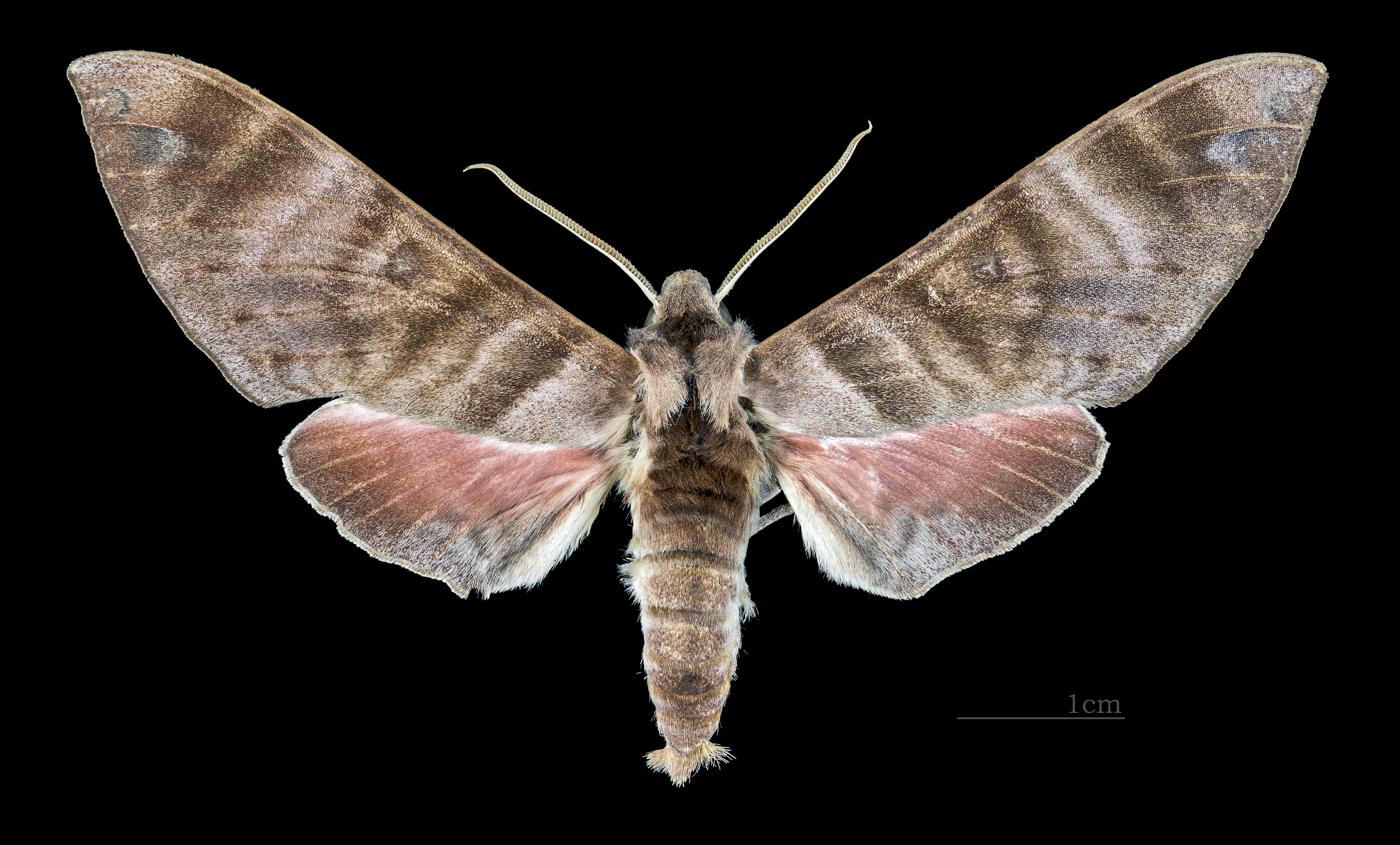 Opistoclanis hawkeri - Dorsal side Collection of the Mathematician Laurent Schwartz